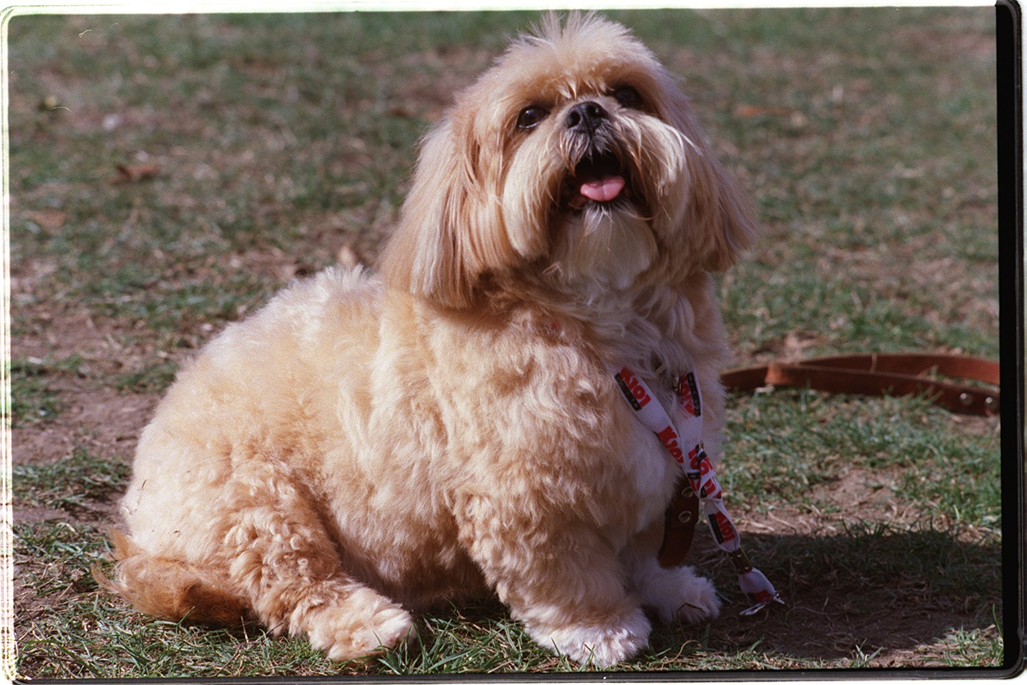 DOG-BICHON 23OCT99/photo by NANCY WONG A BICHON FRISE (?) DOG or maybe a Lahsa Apso AT ALTA VISTA PARK, SAN FRANCISCO